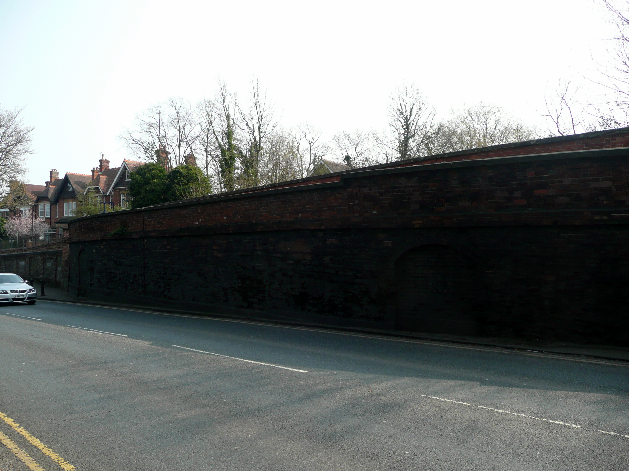 Former site of Boyne Hill Station with bricked up entrances on Castle Hill, Maidenhead. It was opened on 1 August 1854 by the Wycombe Railway on its route between Maidenhead and Wycombe. It closed on 1 November 1871, being replaced the same day by Maidenhead Junction on the Great Western main line.